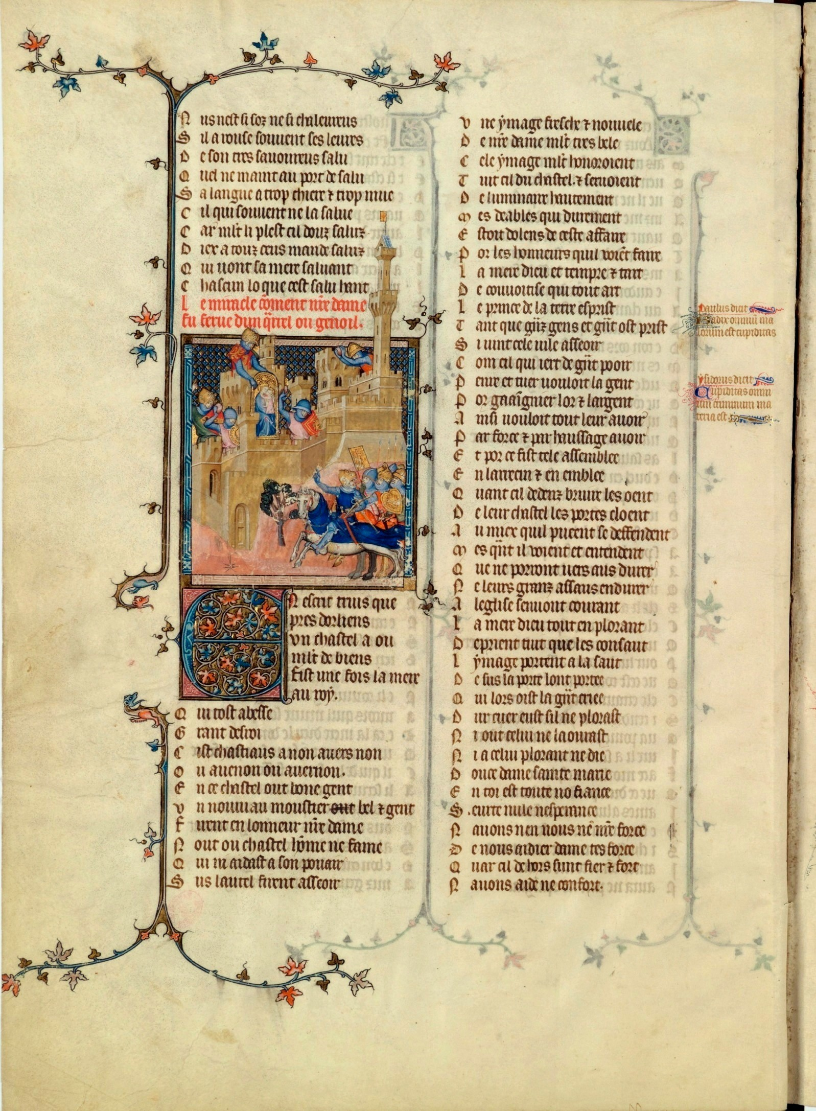 Jean Pucelle and workshop. Miracles de Notre-Dame, 1330-35, BNF, Paris, Ms. Nv. Acq. Fr. 24541, fol.70v